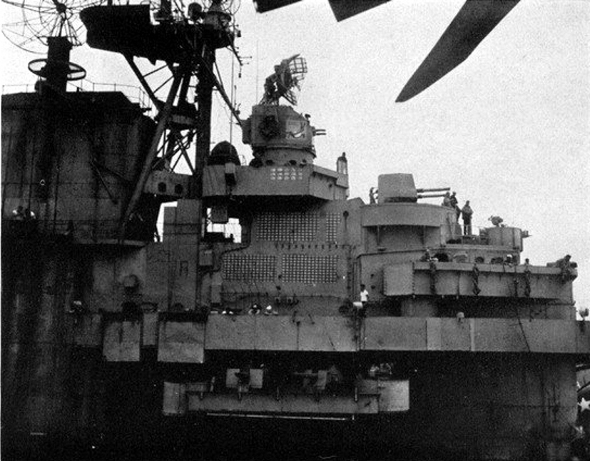 World War II scoreboard of the U.S. Navy aircraft carrier USS Lexington (CV-16). The photo was taken from USS Oklahoma City (CL-91).